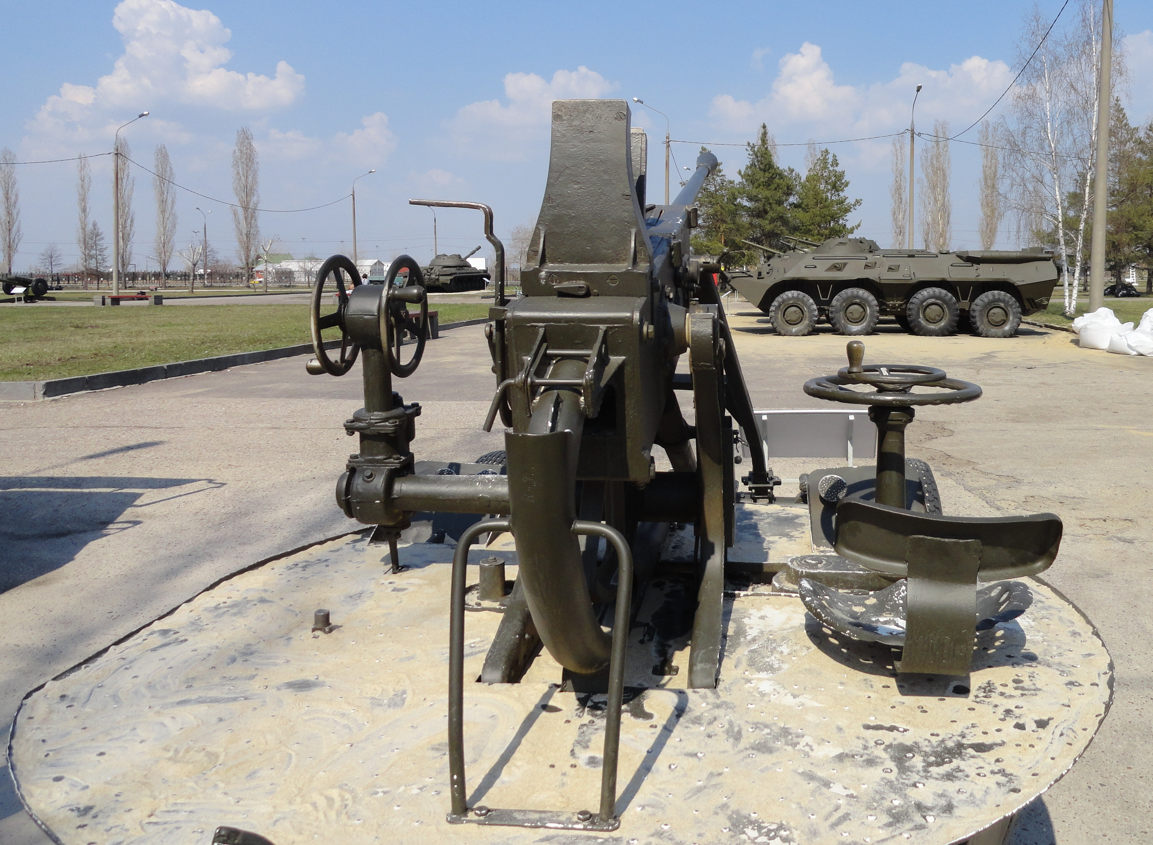 guidance mechanism controls gun 61-K.